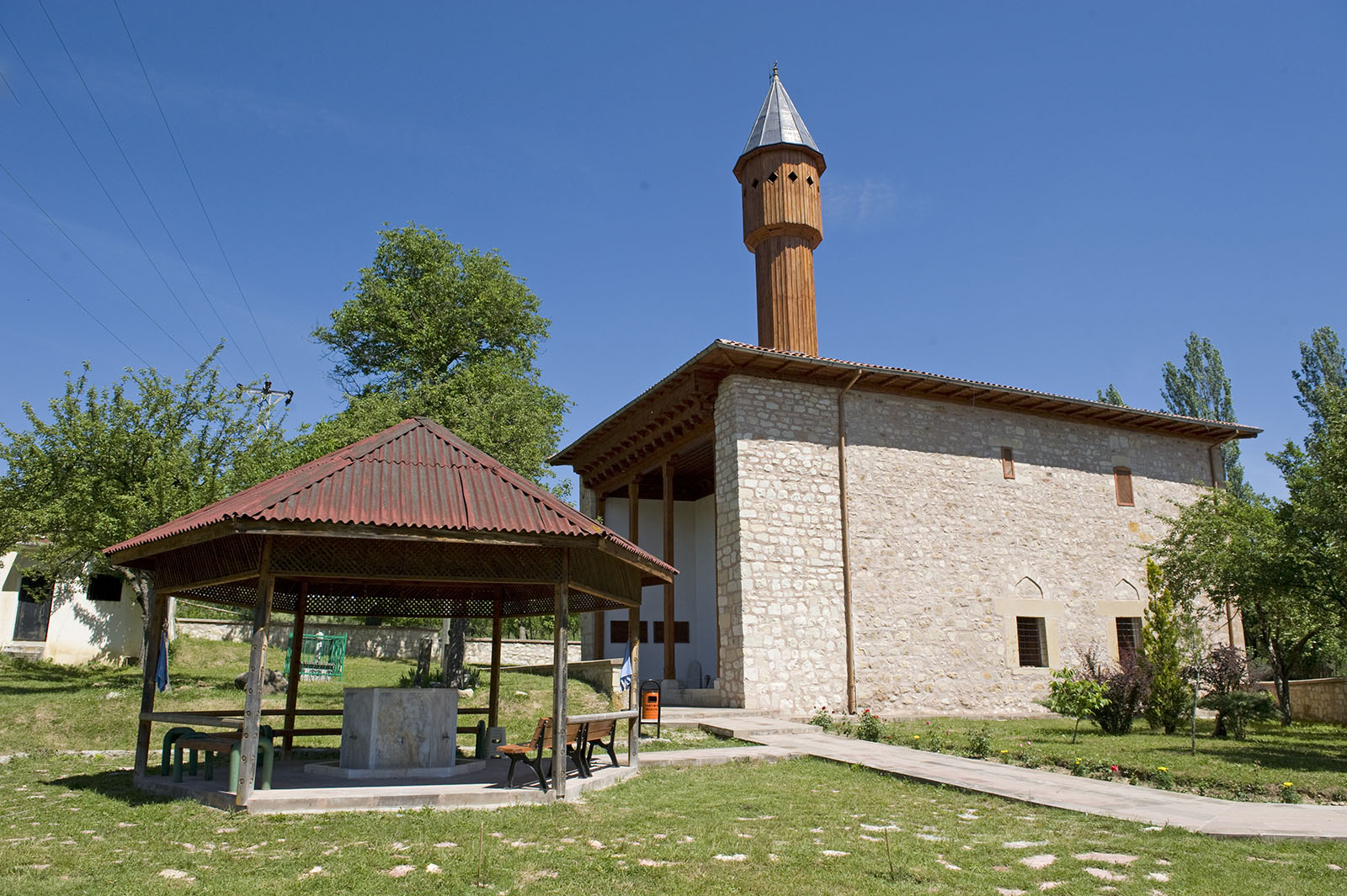 For such an impressive building the mosque looks small.